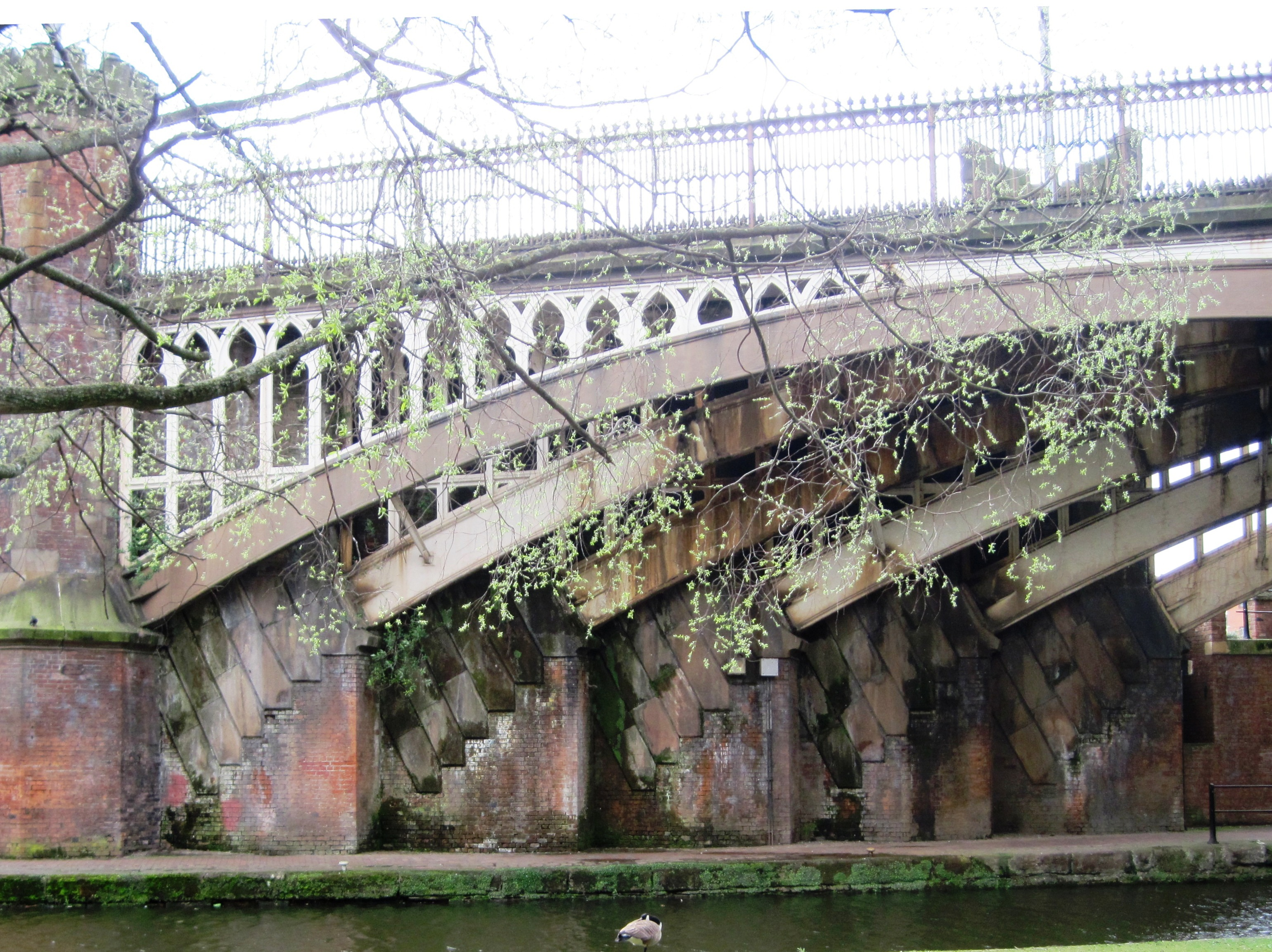 This view shows the unusual masonry built in to the brickwork abutment to carry the six individual cast iron skewed spandrels